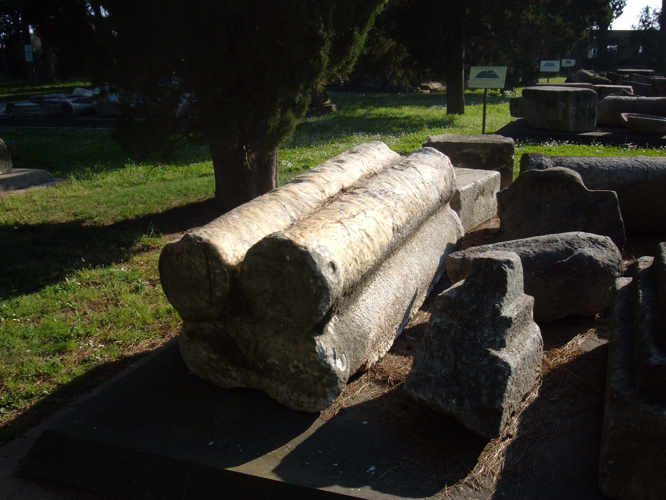 raw columns, ready for refinement